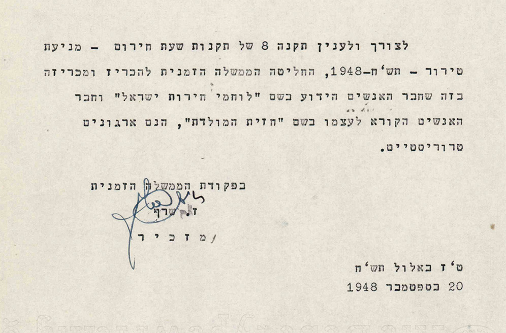 The Jewish underground group Lehi (acronym for Fighters for the Freedom of Israel, also called the Stern Group) were declared to be a terrorist organization by the Israeli government soon after they assassinated the United Nations Mediator Count Folke Bernadotte. The document also mentions the Homeland Front, which was the fictitious organization in whose name Lehi claimed credit for the assassination.